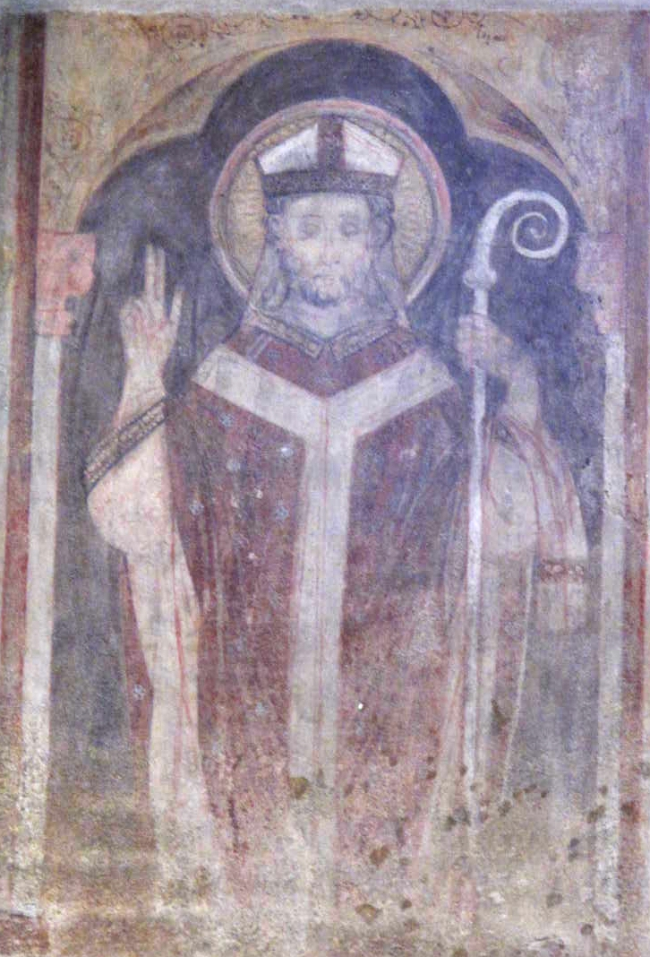 Mural painting in Saint Eustorgius church in Milan (Italy), about XIV century, of Saint Eustorgius bishop of Milan